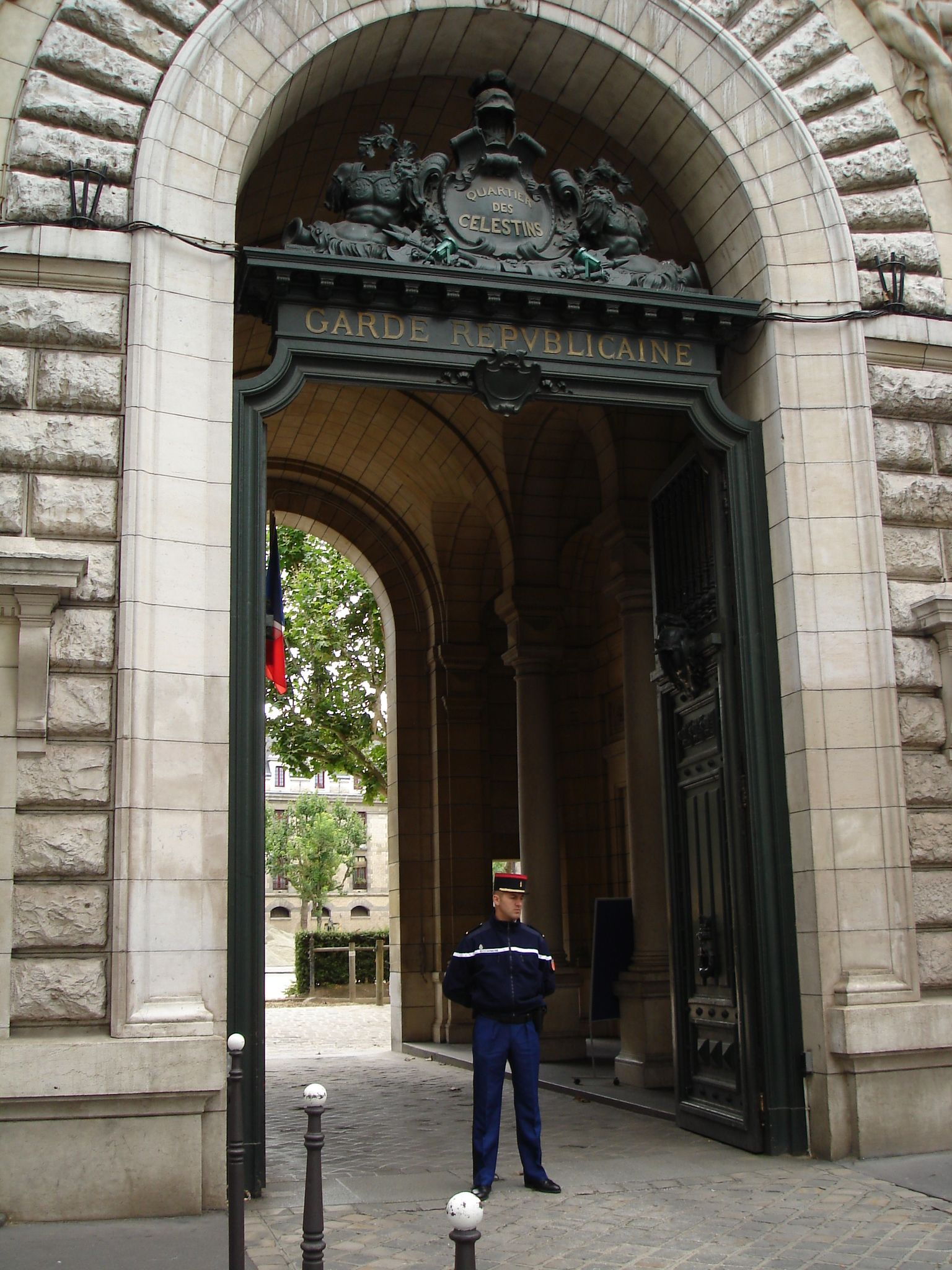 Barrack of the French "Garde Republicaine" (Caserne des Celestin)- Bd Henri IV; Main entrance.